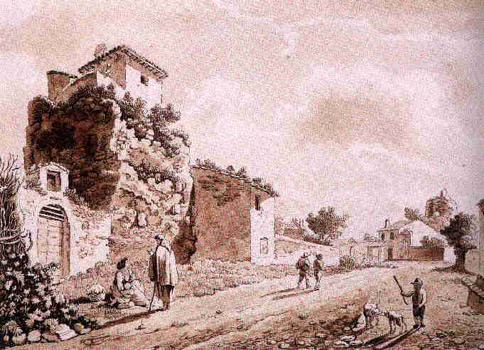 The Tombe of Geta, painting by Carlo Labruzzi (1748-1817)